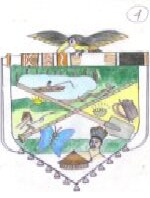 Coats of arms of Taraira, Vaupés, Colombia.